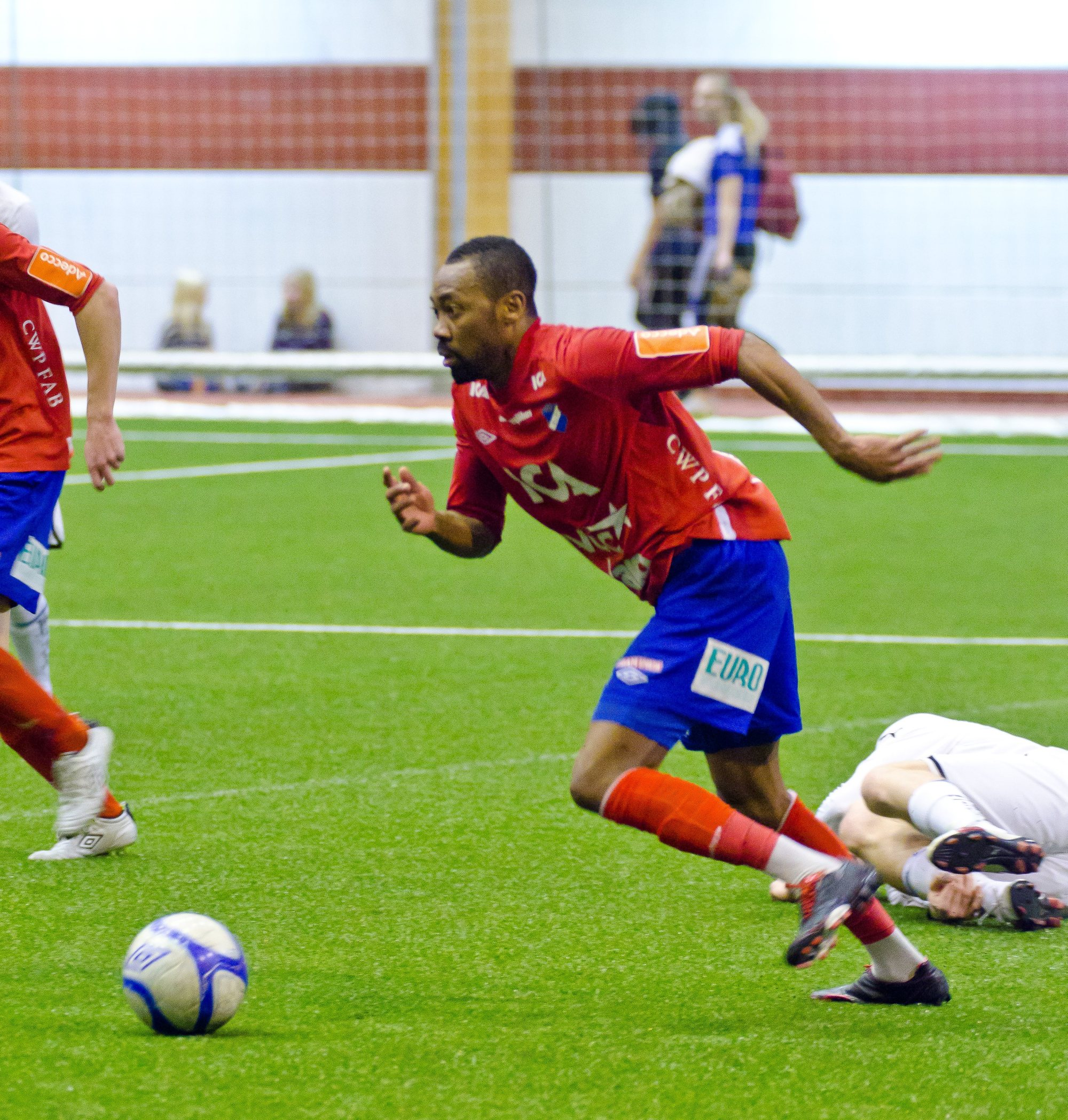 Nigerian footballer Kevin Amuneke advancing with the ball in game against Kalmar FF.